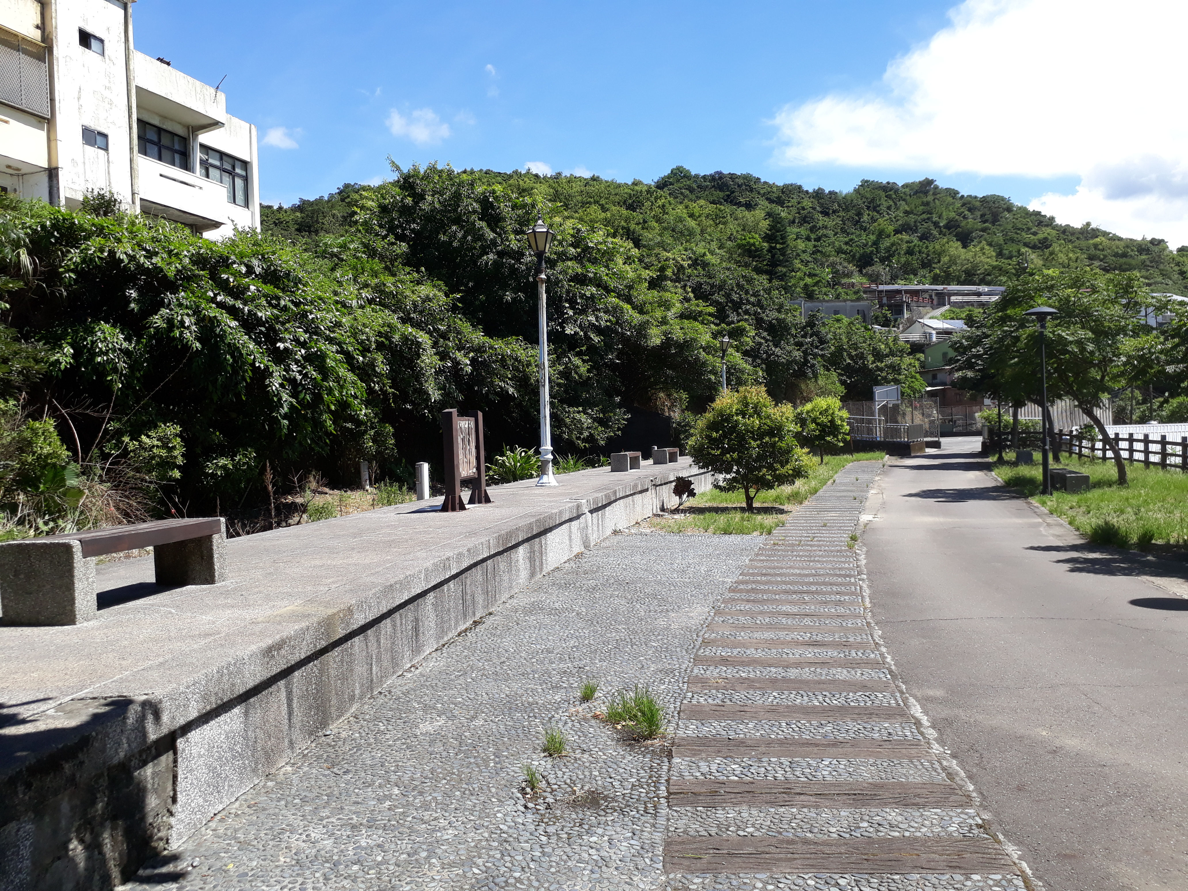 Remains of TRA Haibin Station platform, closed in 1989.